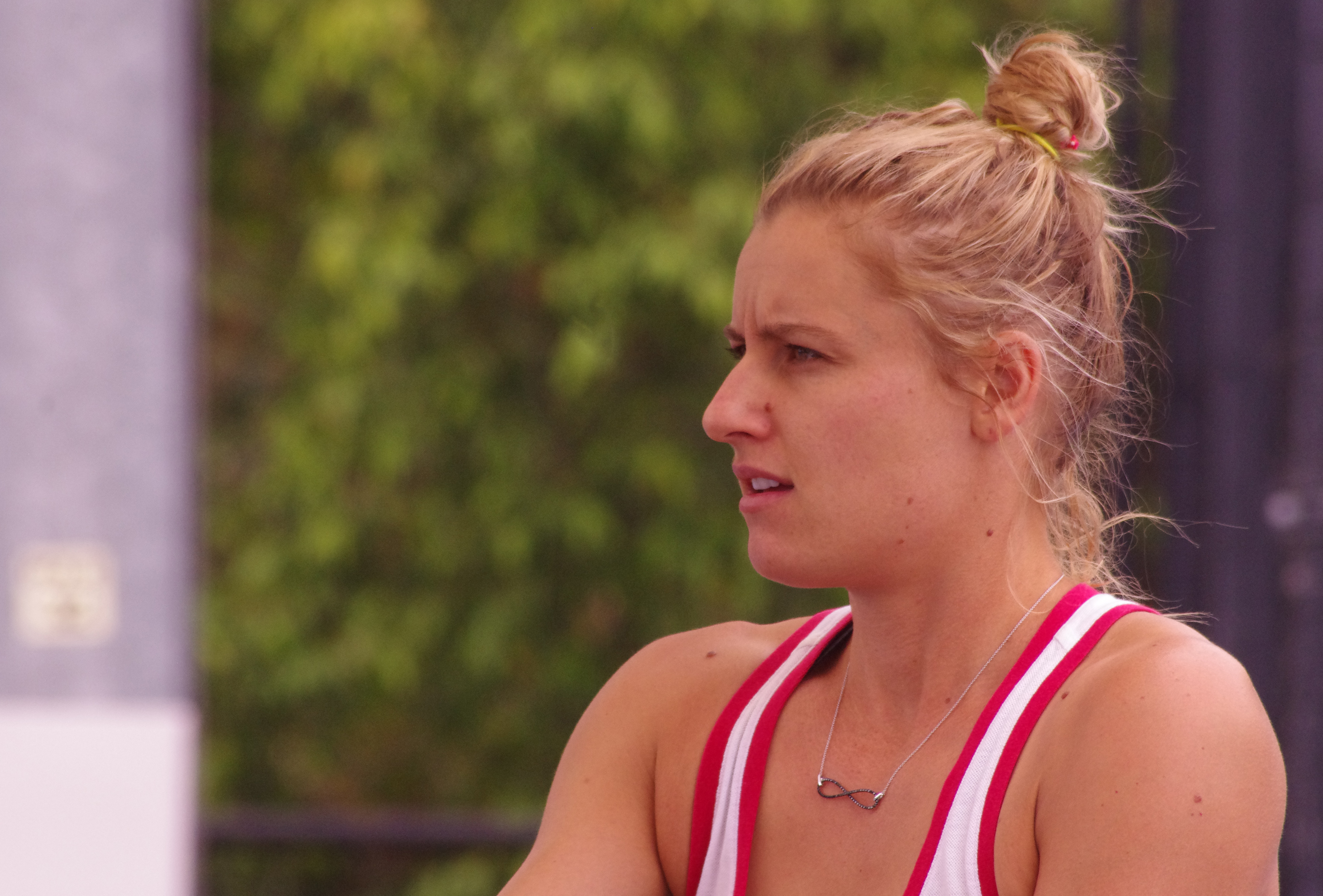 Monique Adamczak in January 2014.